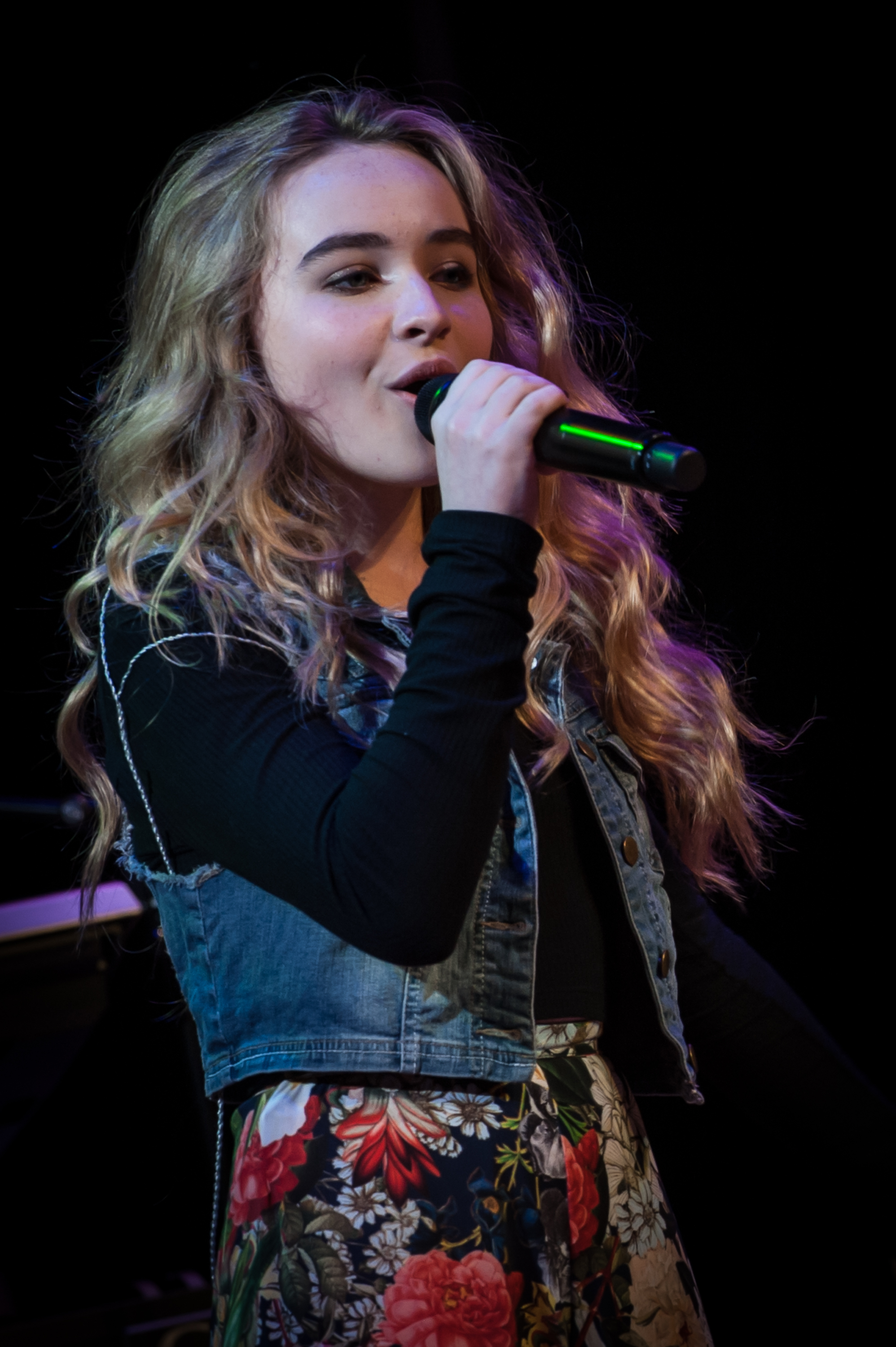 Sabrina Carpenter - Disney Social Media Moms Conference - Disney Junior Morning